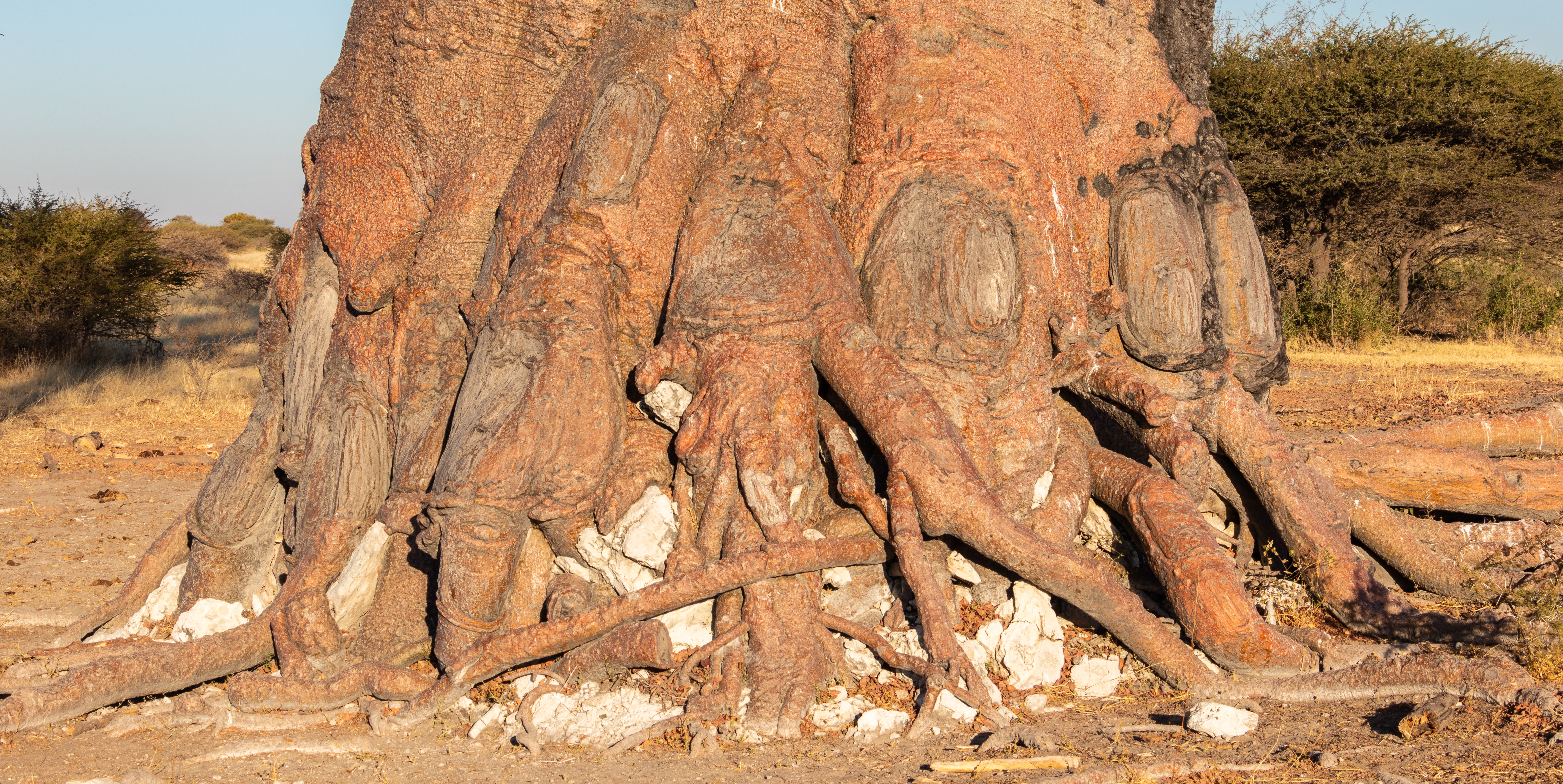 Baobab (Adansonia digitata), Makgadikgadi Pans National Park, Botswana